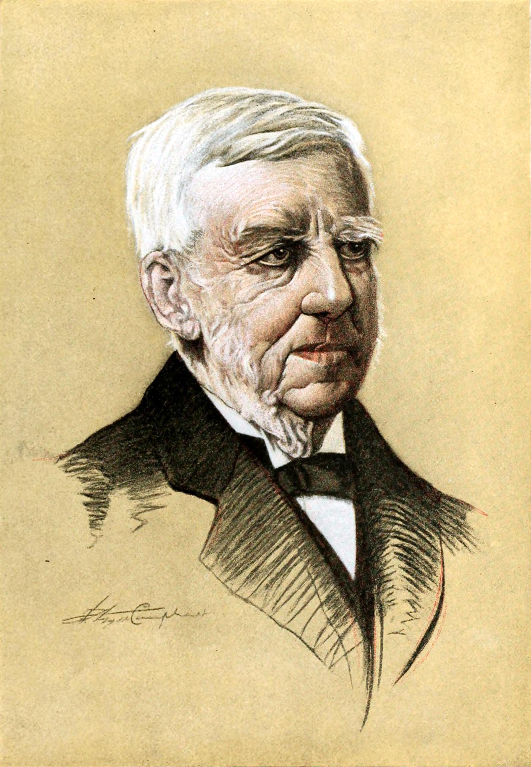 Portrait of Oliver Wendell Holmes by V. Floyd Campbell